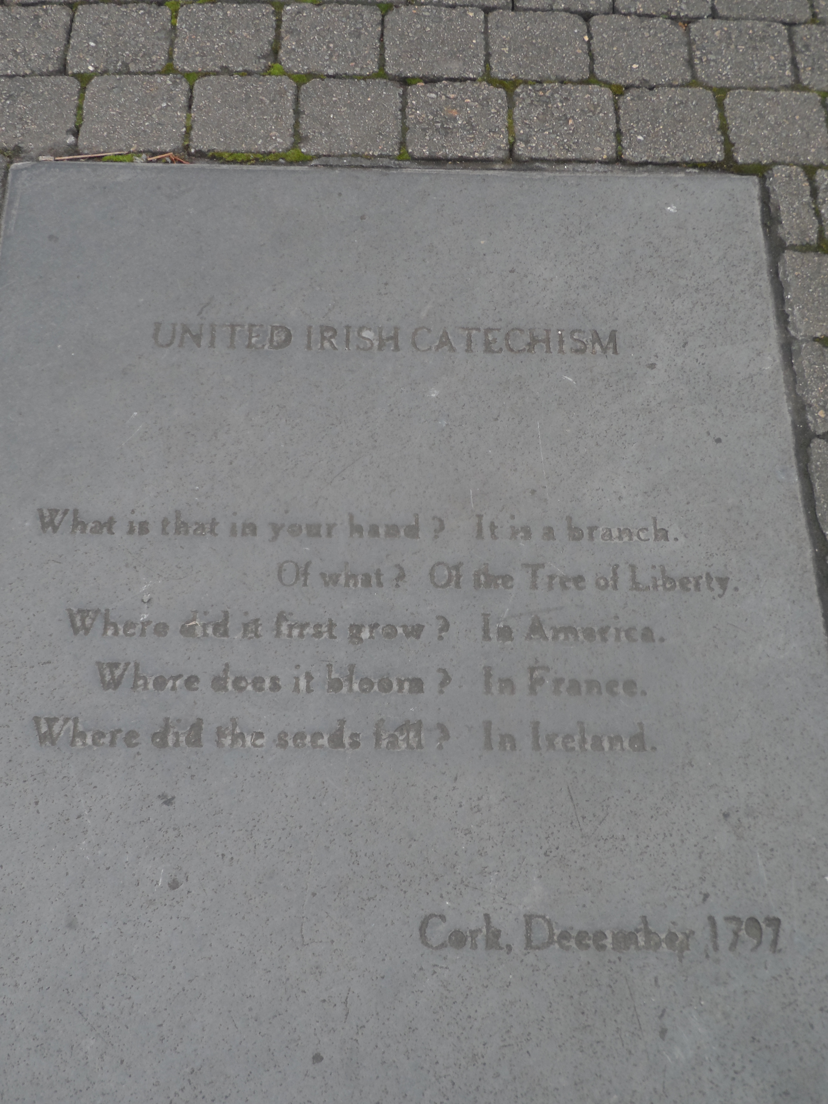 1798 poem, Wexford